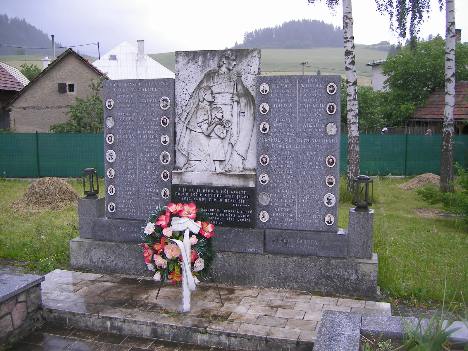 Sklabiňa - memorial of the Slovak National Uprising